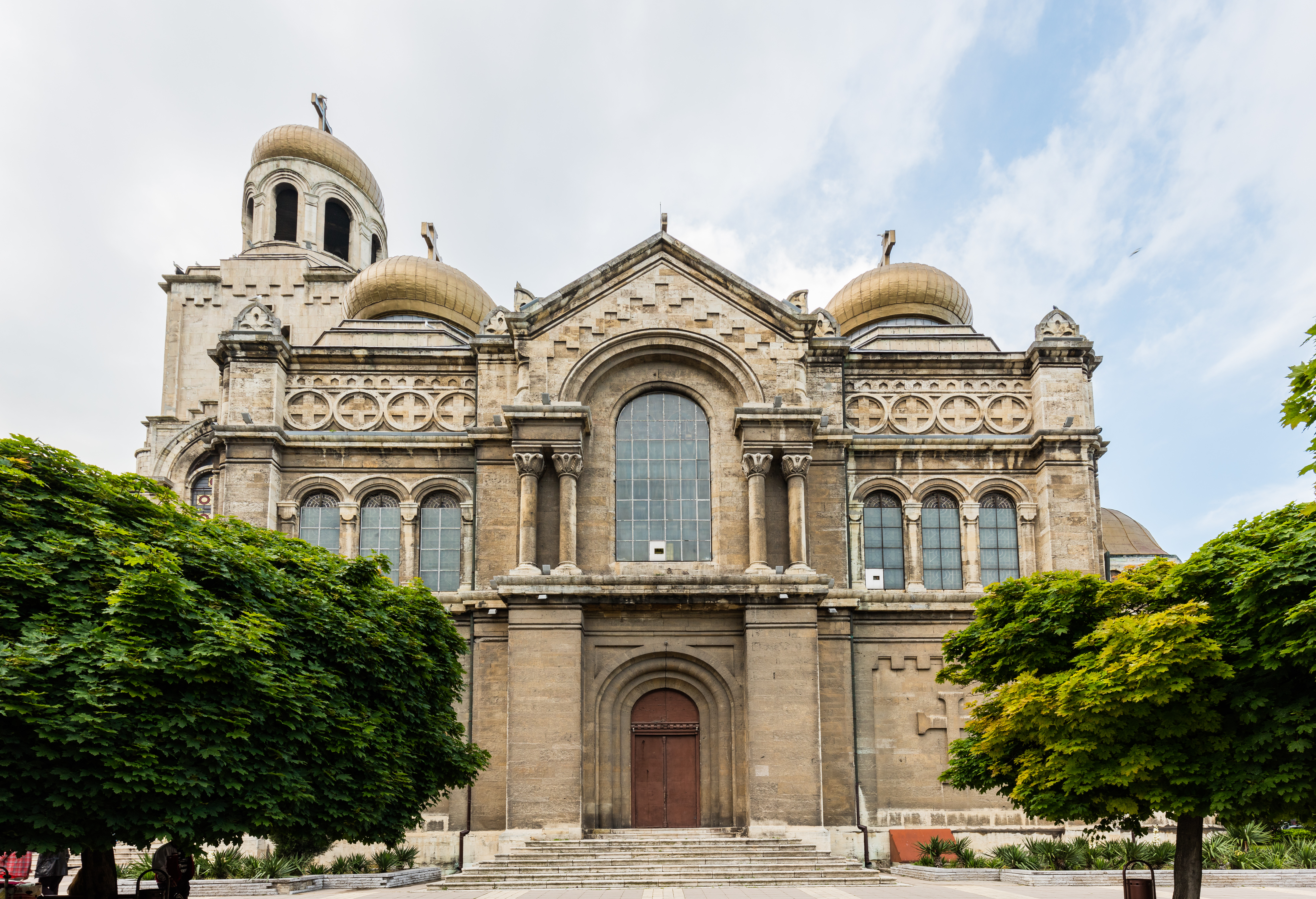 Dormition of the Theotokos Cathedral, Varna, Bulgaria